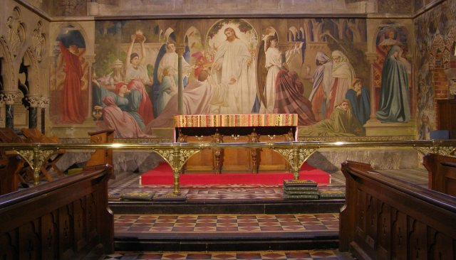 The Leighton Fresco, St Michael and All Angels church, Lyndhurst The fresco entitled 'The Wise and Foolish Virgins' was created in 1862 and depicts the parable from St Matthew's Gospel. It is the work of Sir Frederic Leighton (1830-96) who later went on to become the President of the Royal Academy. Leighton offered to paint the fresco for only the cost of the paints. The fresco, beneath the church's east window, was retouched and restored a century after it was first painted, and again more recently to mark the centenary of Leighton's death.